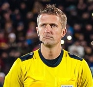 Daniele Orsato before the Champions League game between FC Rostov and Atlético Madrid.